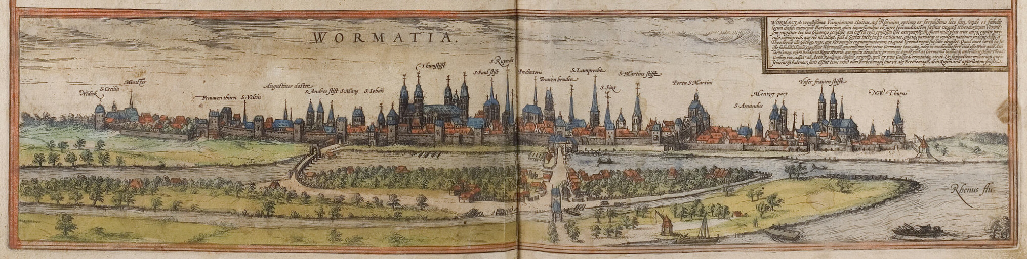 Worms